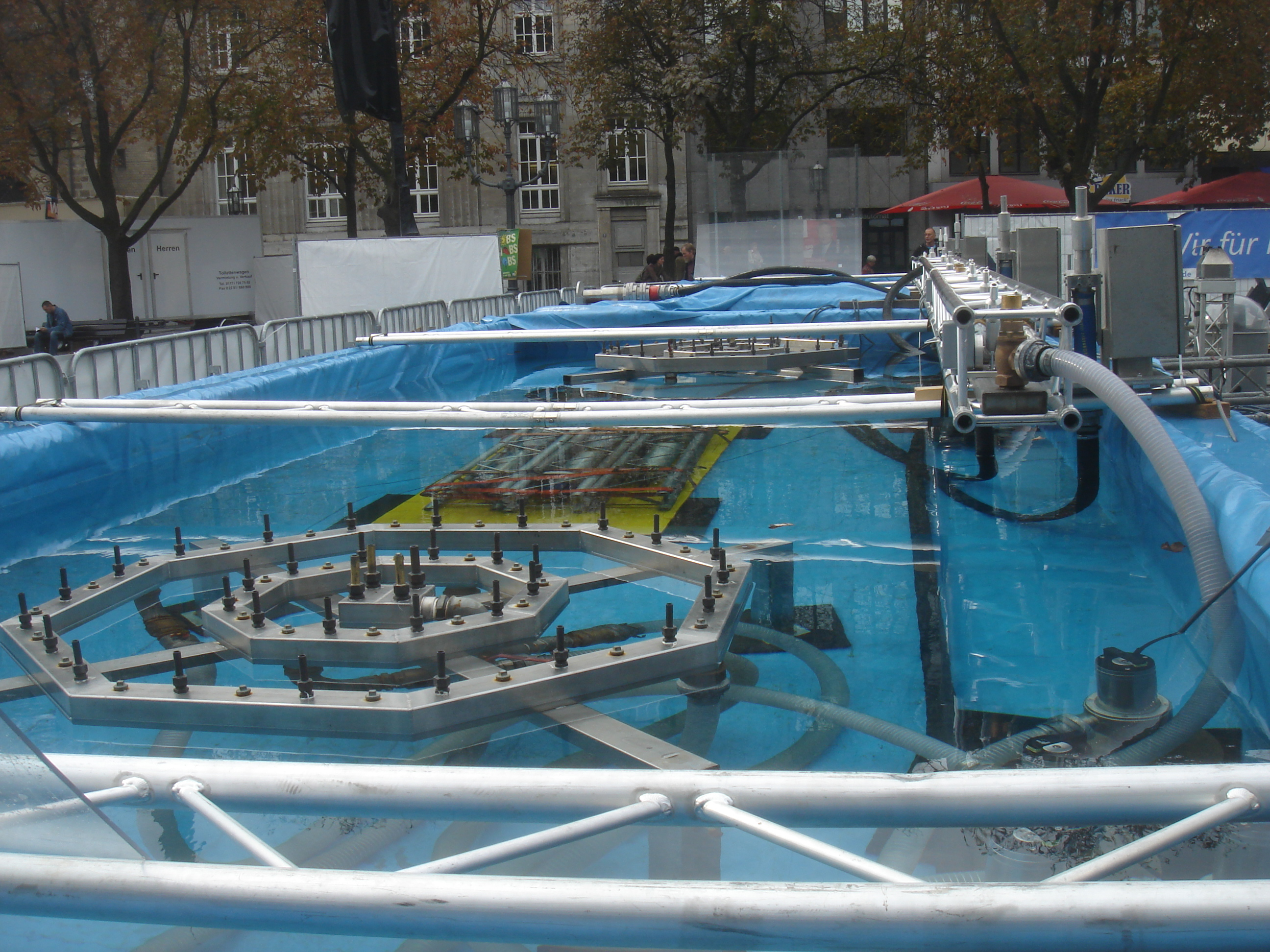 Equipment of the water fountains for the 2009 "Klangwelle" show in Bonn, Germany.